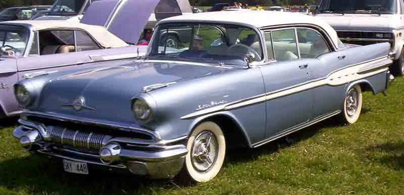 Pontiac Starchief 4-Door 1957